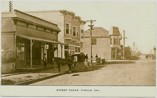 Postcard of street scene in Pinole, California, about 1909; "Original [...] circa 1909 Pinole postcard. Caption reads 'Street Scene, Pinole, Calif'. Card is postally used in 190?"